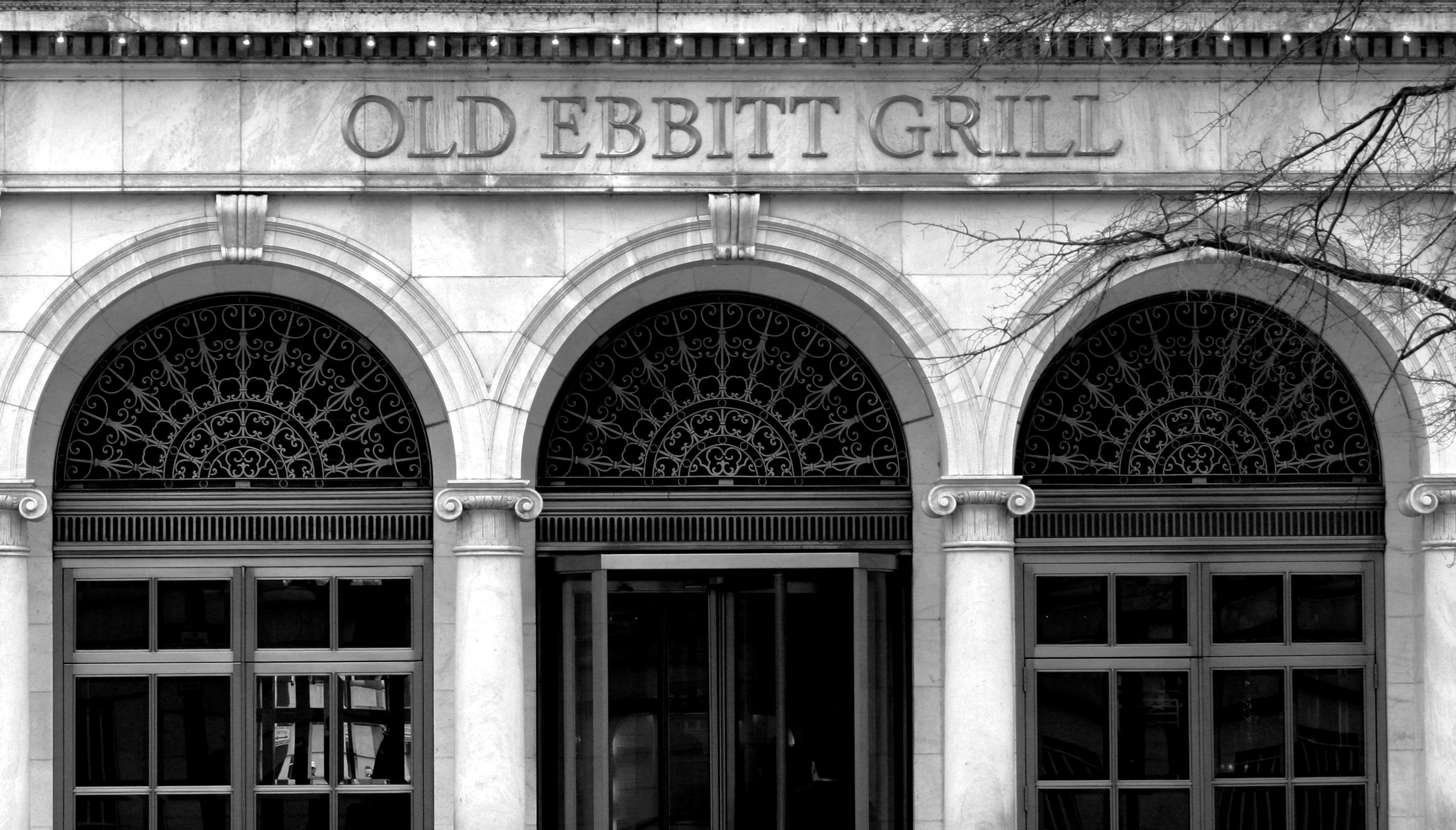 Signage above the front door to Old Ebbitt Grill, a historic restaurant located at 675 15th Street NW in Washington, D.C., in the United States.